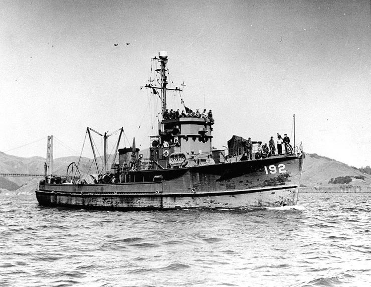 c. April 1946, San Francisco Bay USS YMS-192 returning to the U.S. at the end of World War II. US Navy Photo NH 79690 (Caption cropped from photo: "Photo # NH 79690 USS YMS-192 in San Francisco Bay"